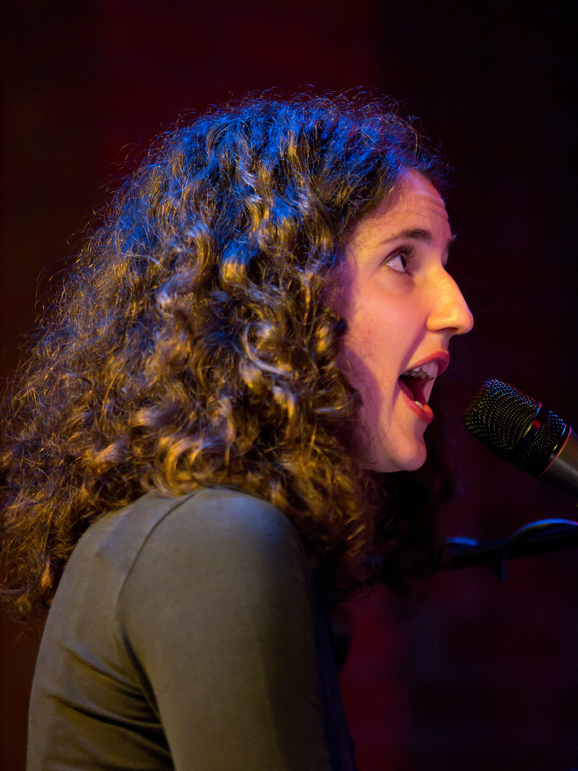 Andrea Hermenau, Jazz pianist and vocalist; Picture taken in Jazz Club Unterfahrt, Munich/Bavaria